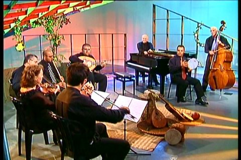 ההרכב היהודי ערבי בהופעה בhe:אינטרמצו עם אריק. בעל הזכויות הוא ד'קי ברקן - מפיק התוכנית. מועלה באישור ממנו בדוא"ל Monday, November 6, 2006 9:20:02 AM: you can release them to use with permission in the Hebrew or any other Wikipedia language, under the "Creative Commons" license, that allows free use of the image, on condition of attribute to its creator.